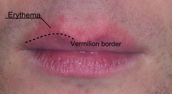 Erythema above the lips, appeared concomitantly with chapped lips due to exposure to very cold temperature.